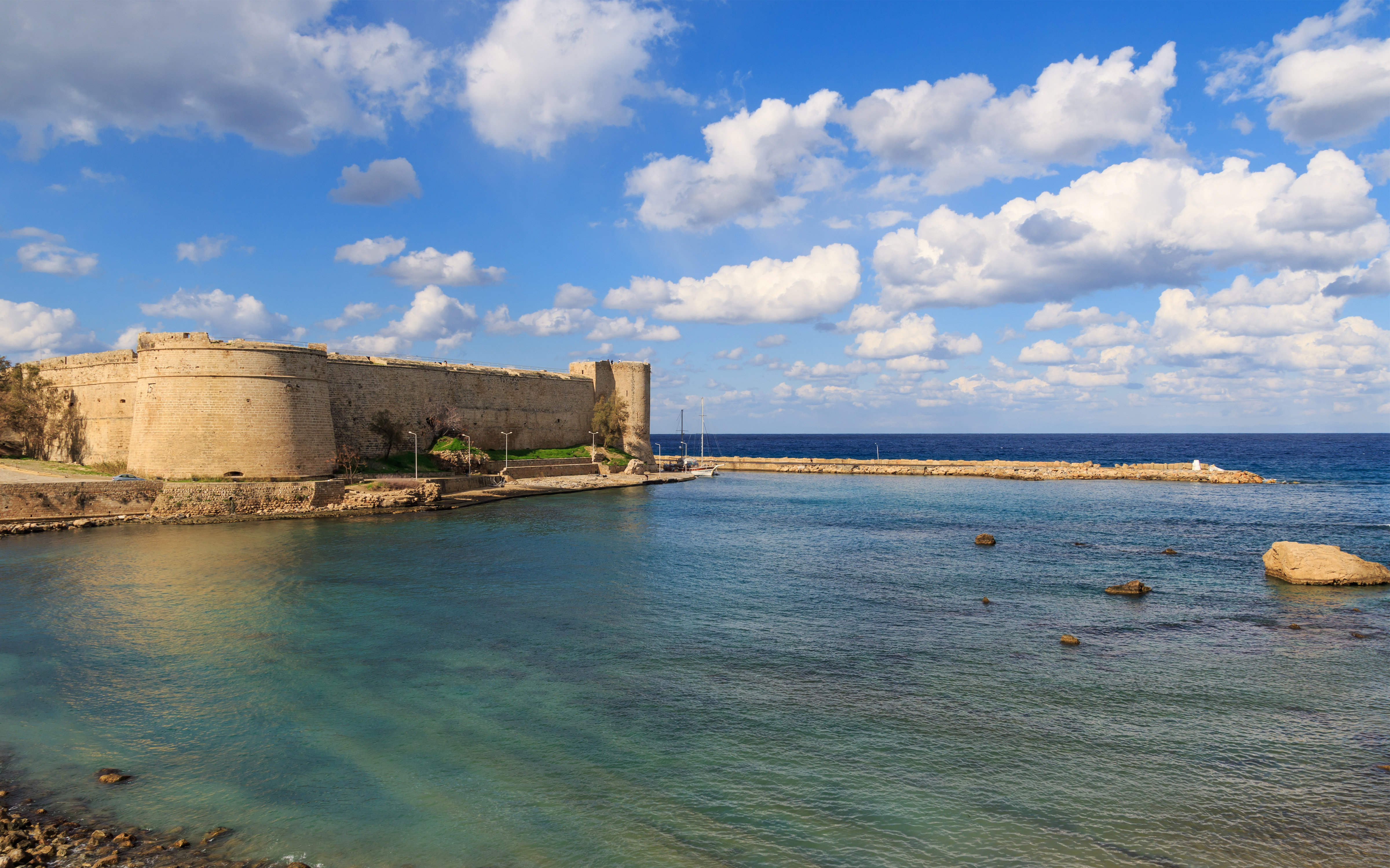 Exterior of the castle in Kyrenia, Cyprus